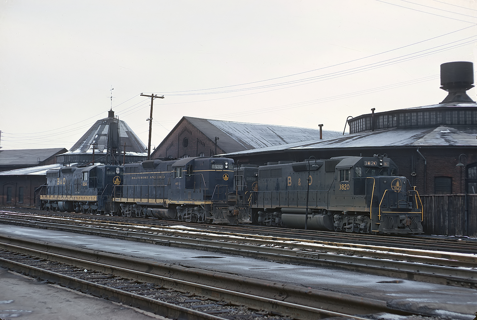 A Roger Puta Photograph